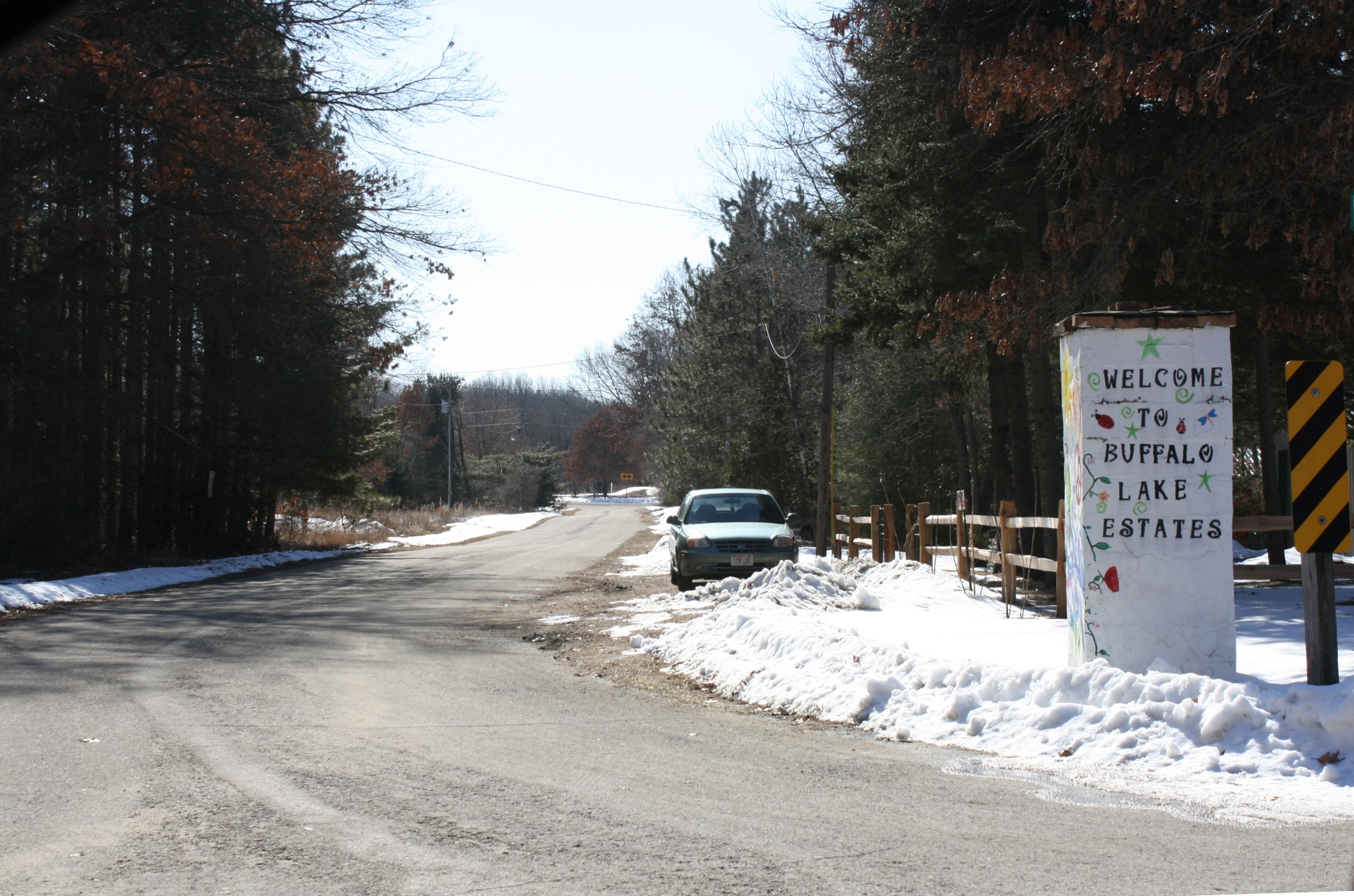 The sign for Buffalo Lake Estates, Wisconsin.